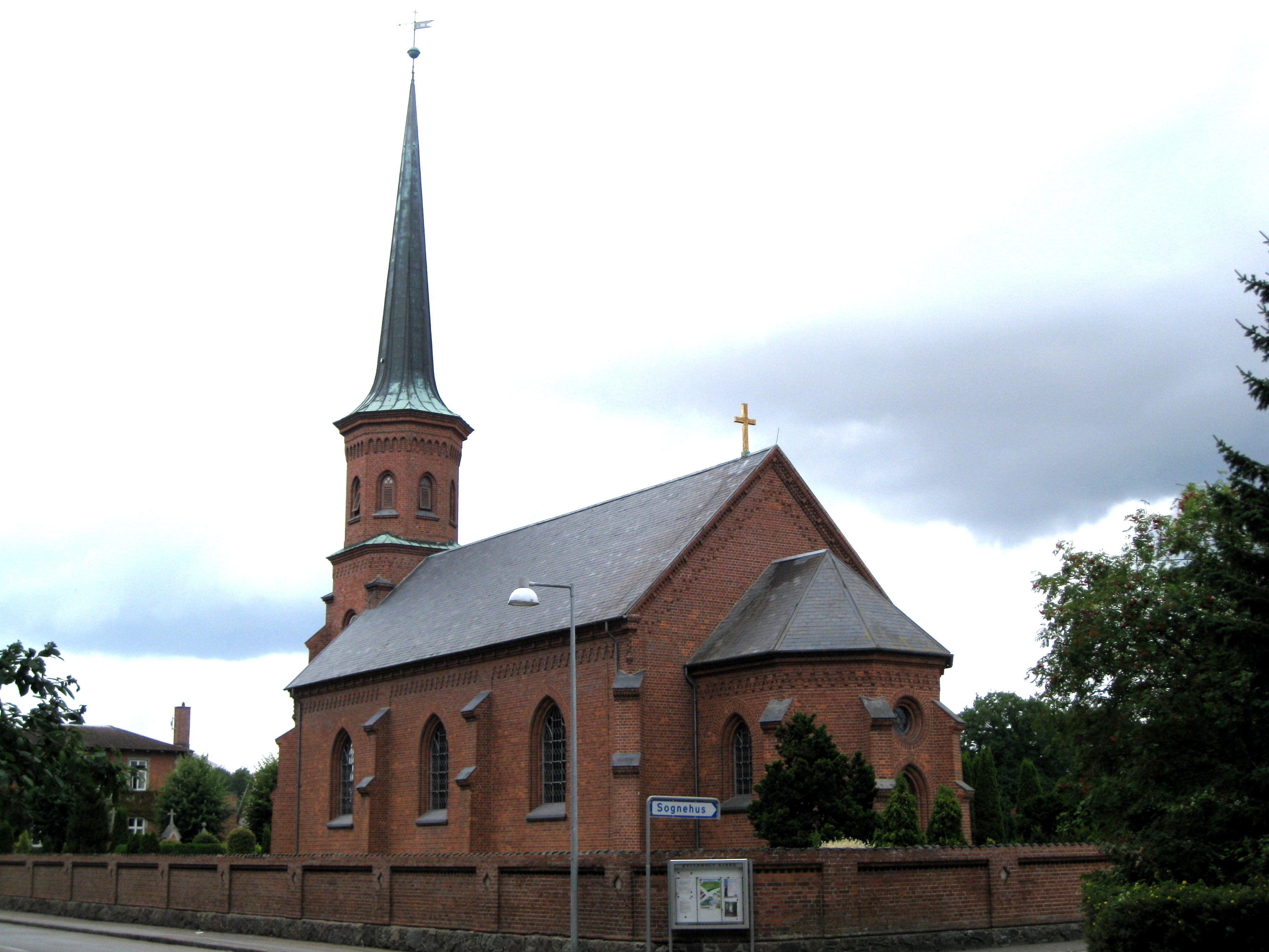 The church "Hylleholt Kirke" of the small town "Faxe Ladeplads". The town is located on South Zealand in east Denmark.